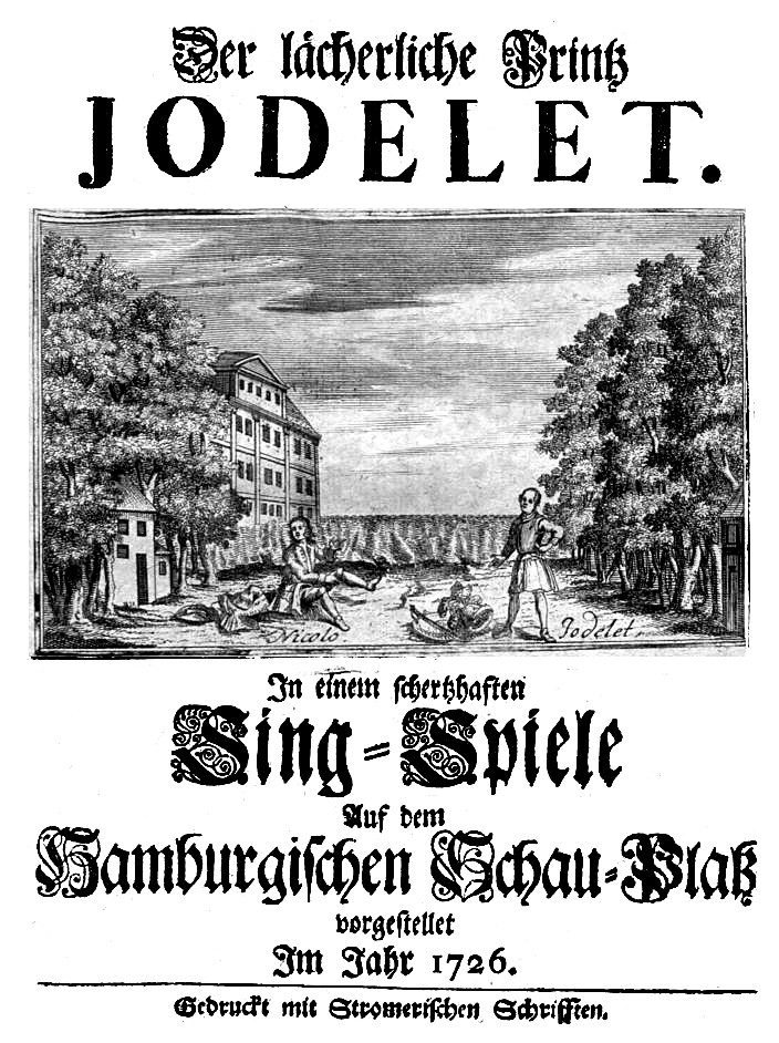 Reinhard Keiser - Der lächerliche Prinz Jodelet - titlepage of the libretto